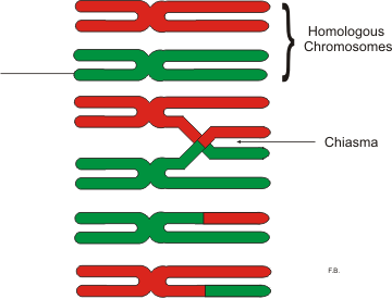 Meiosis: schematic diagram of Crossover